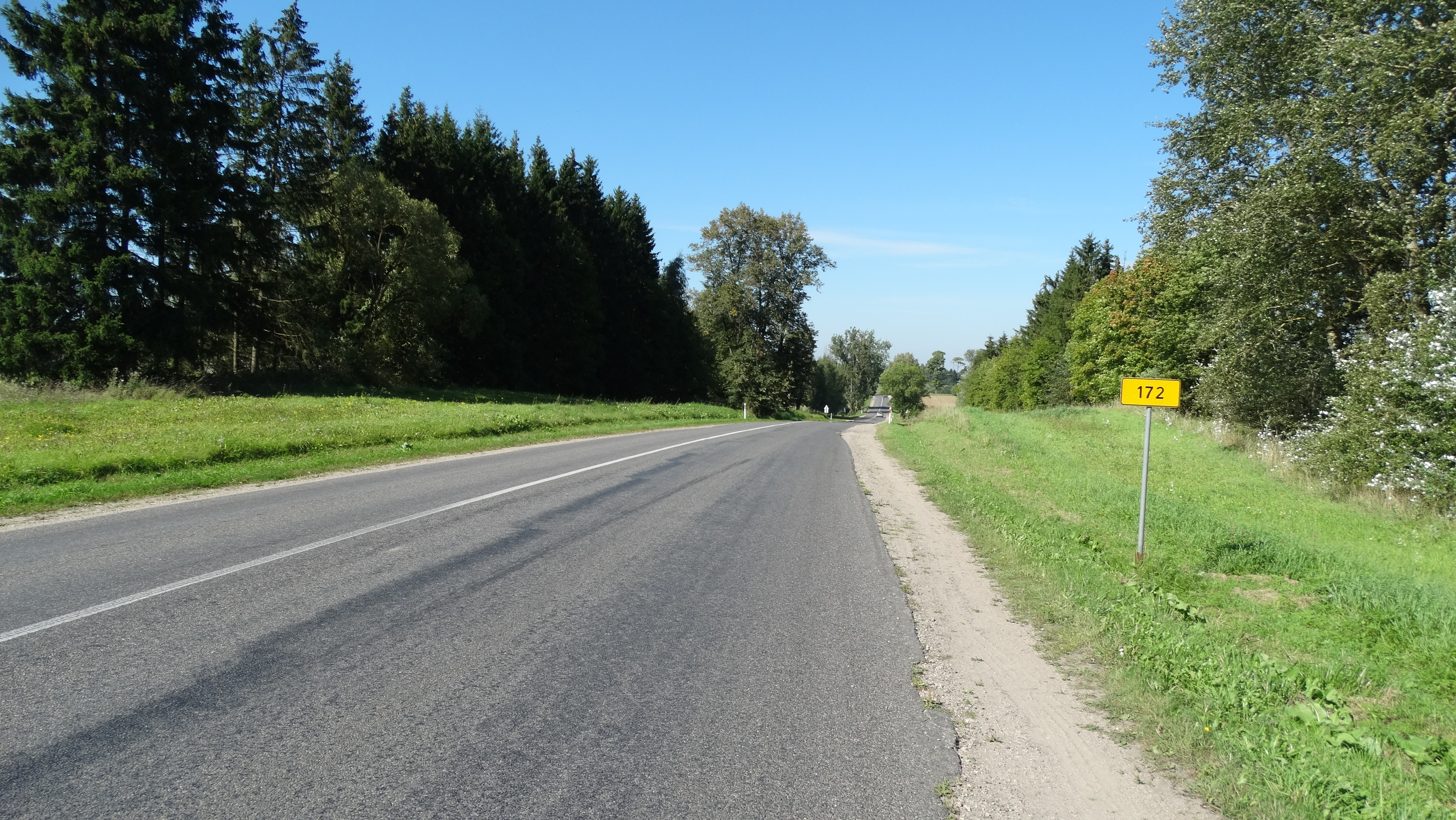 Road 172 by Pikeliškės, Vilnius District, Lithuania